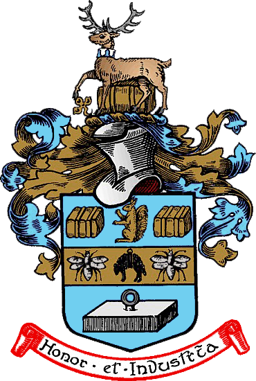 The coat of arms of the former Bacup Municipal Borough Council, the former local authority of Bacup in Lancashire, England. Arms granted 13 March 1883 by the College of Arms. The armoural description is as follows: ARMS: Azure on a Fesse between two Bales of Cotton in chief Or and a Block of Stone with Lewis attached in base proper a Fleece Sable between two Bees volant of the third in the centre chief point a Squirrel sejant of the second. CREST: On a Wreath of the Colours in front of a Bale of Cotton Or a Stag [proper] gorged with a Collar Vair and resting the dexter forefoot on a Trefoil slipped Gold. Motto: HONOR ET INDUSTRIA - Honour and industry. Granted: 13th March 1883.